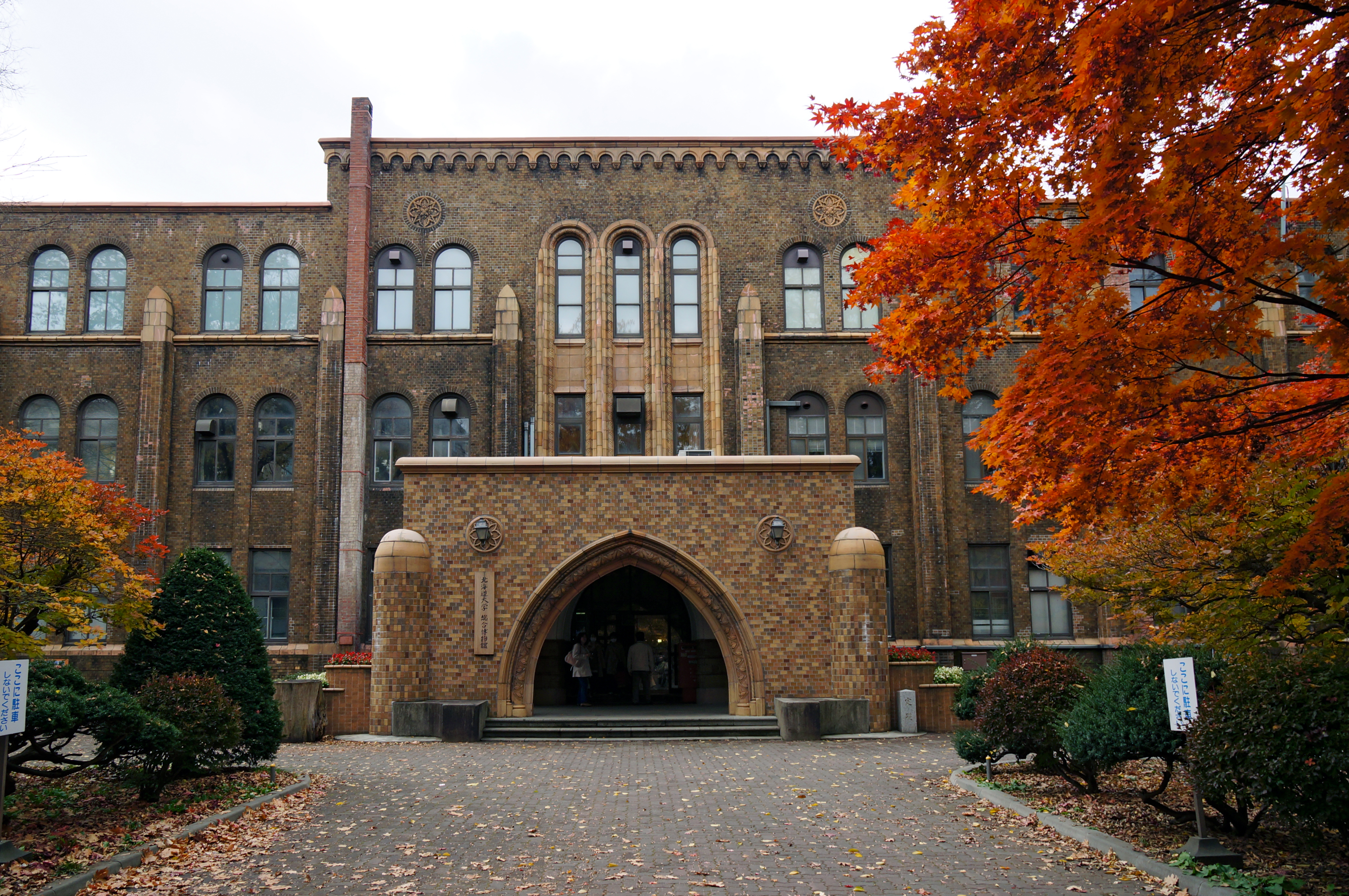 At Hokkaido University in Sapporo, Hokkaido prefecture, Japan.